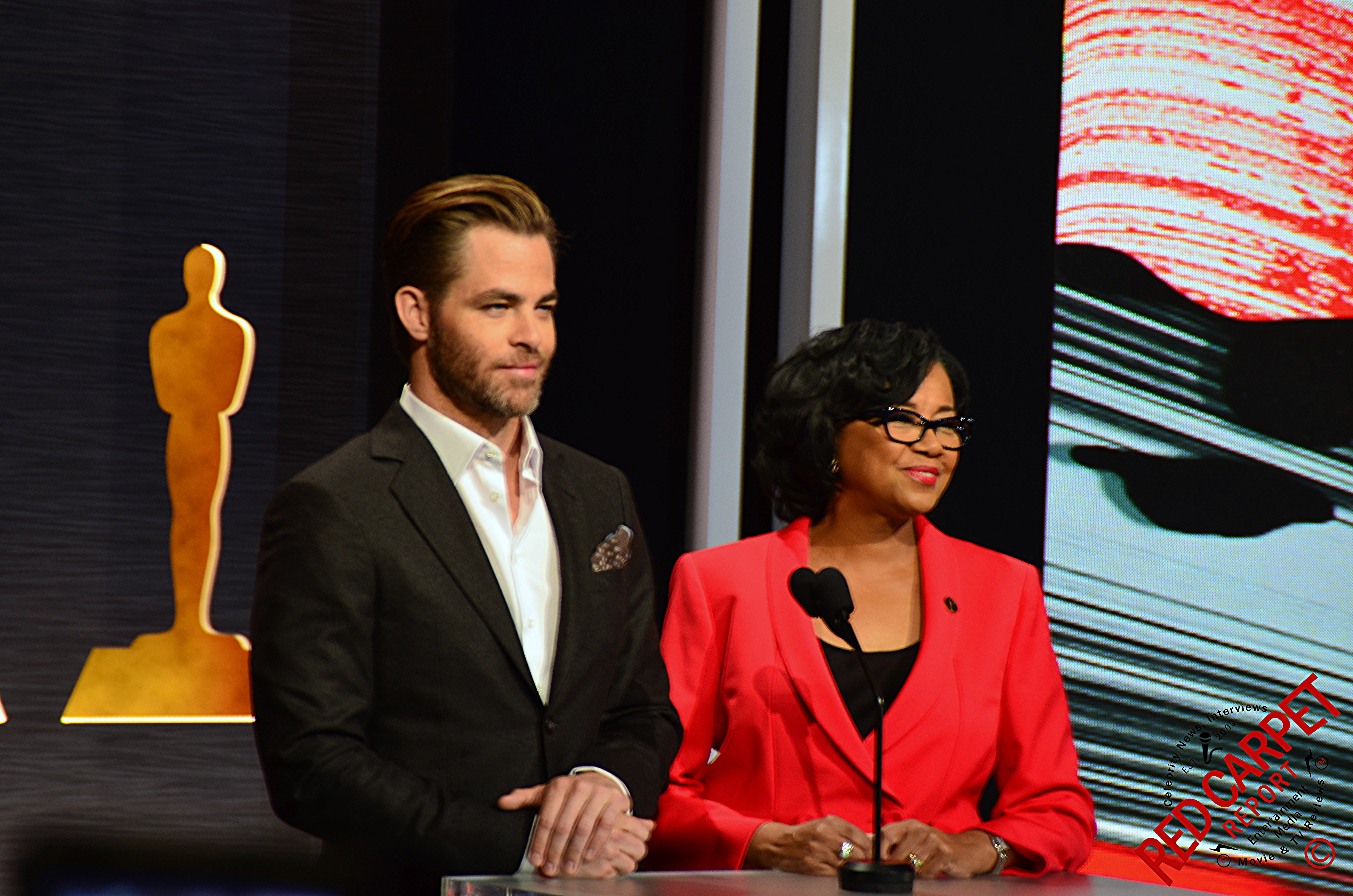 Academy President Cheryl Boone Isaacs and actor, Chris Pine, at the 87th Oscars Nominations Announcements on January 15, 2015